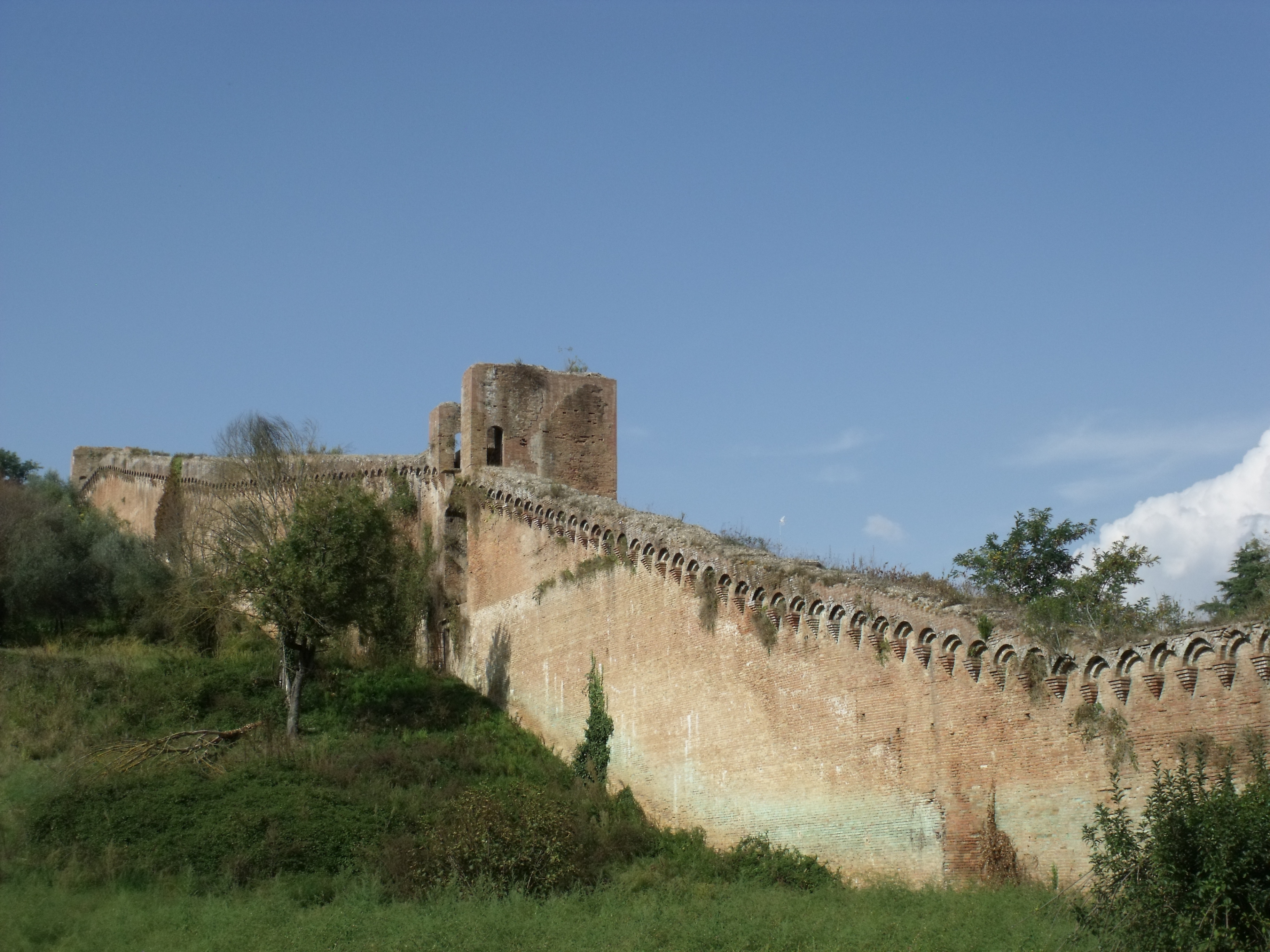 City Walls of Siena between Fonte Follonica and San Francesco seen from the inside, Siena, Tuscany, Italy